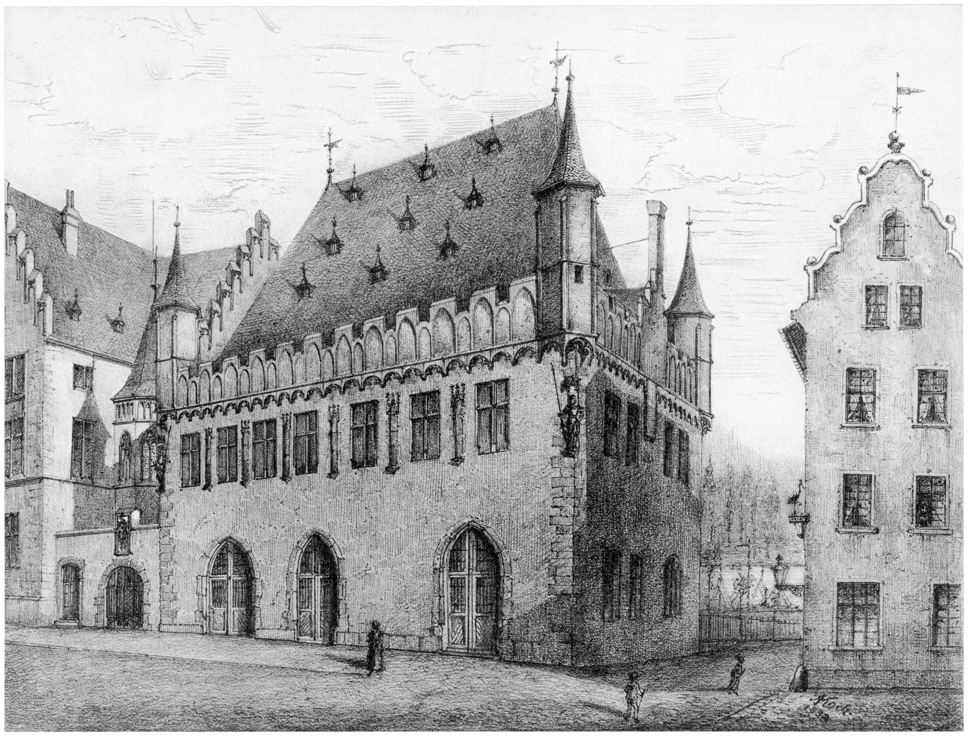 Frankfurt on the Main: The Leinwandhaus (Linen House) at the Weckmarkt (Roll Market). 1399–1892.